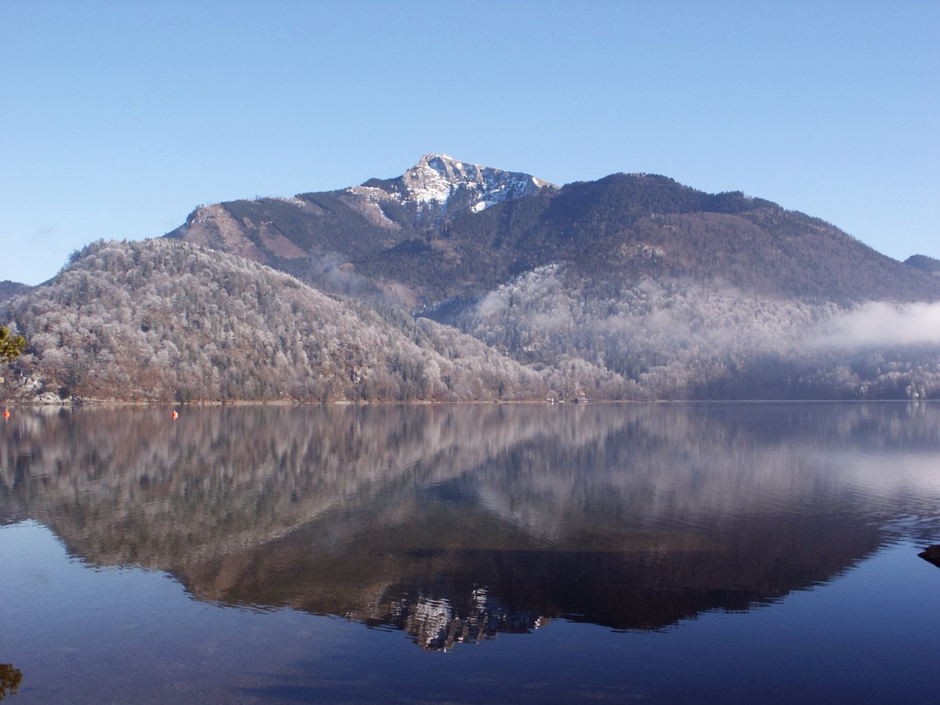 The Austrian mountain Schafberg and the lake Wolfgangsee, as seen from St. Gilgen